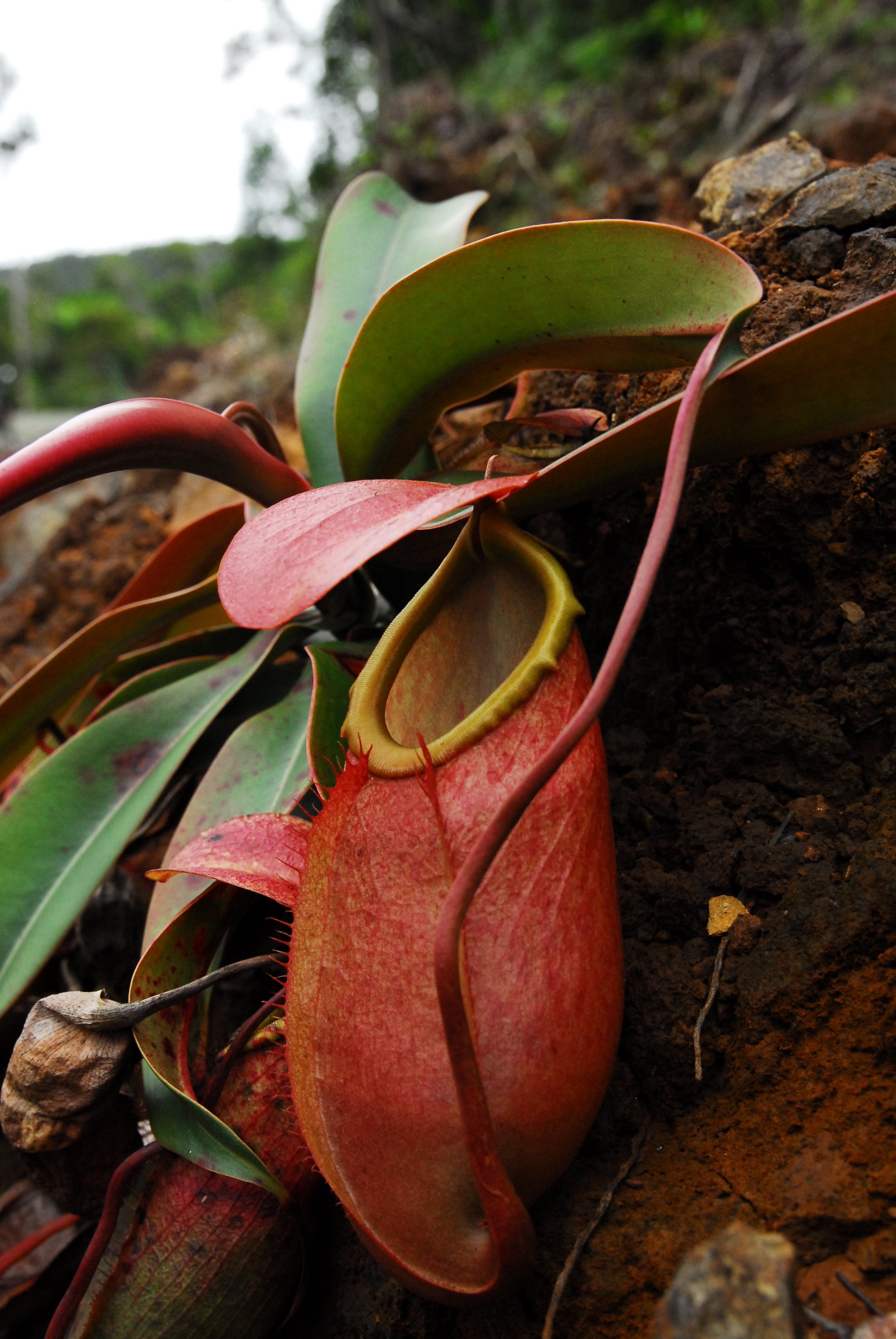 Nepenthes merrilliana lower pitcher from Dinagat Island, Philippines